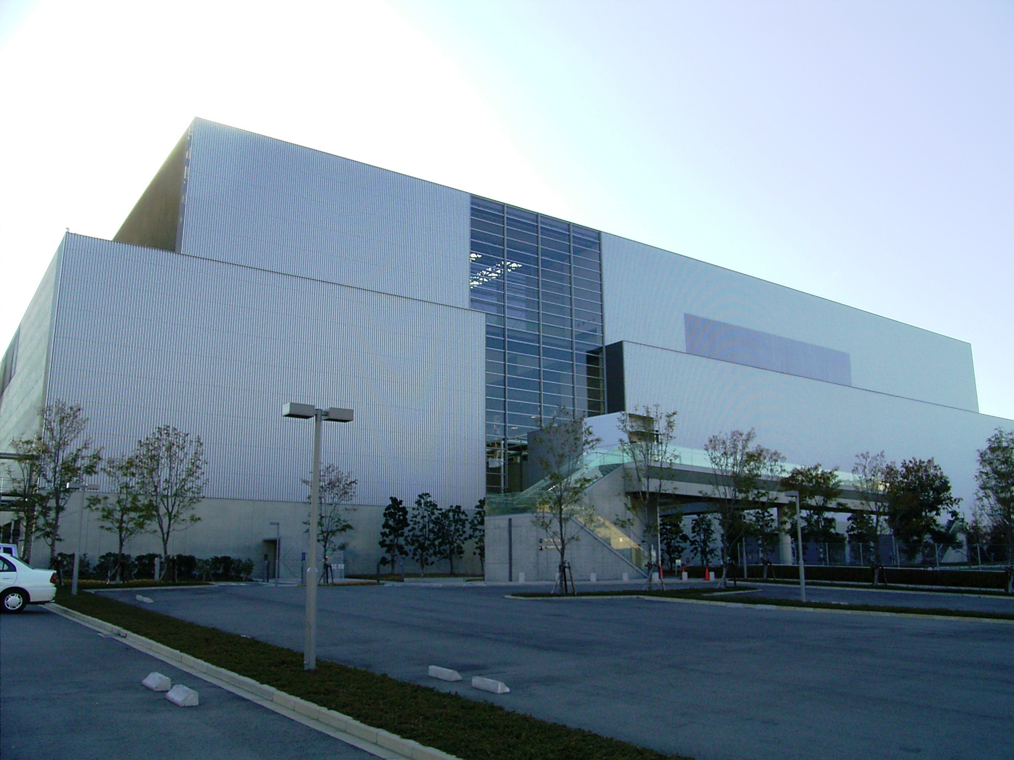 Naka Waste Incineration Plant(広島市環境局中工場),Hiroshima